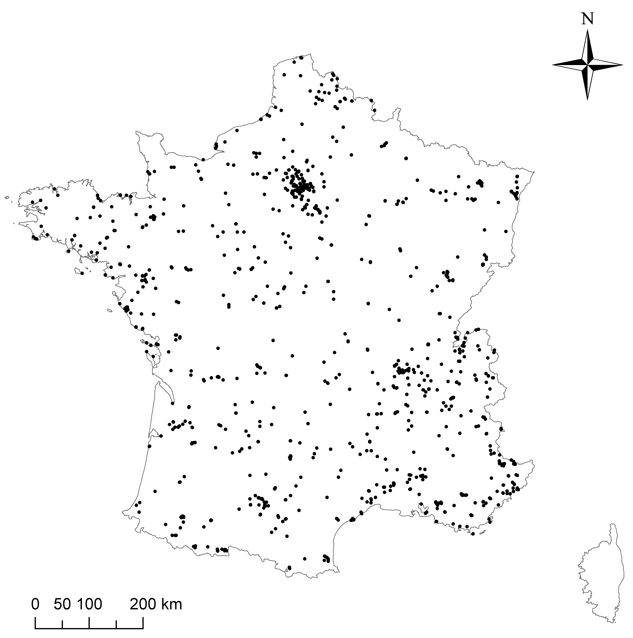 Spipoll map of France. From